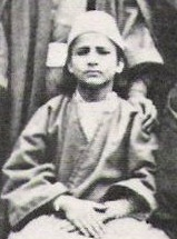 Mirza Díyá'u'lláh Son of Baha'ullah